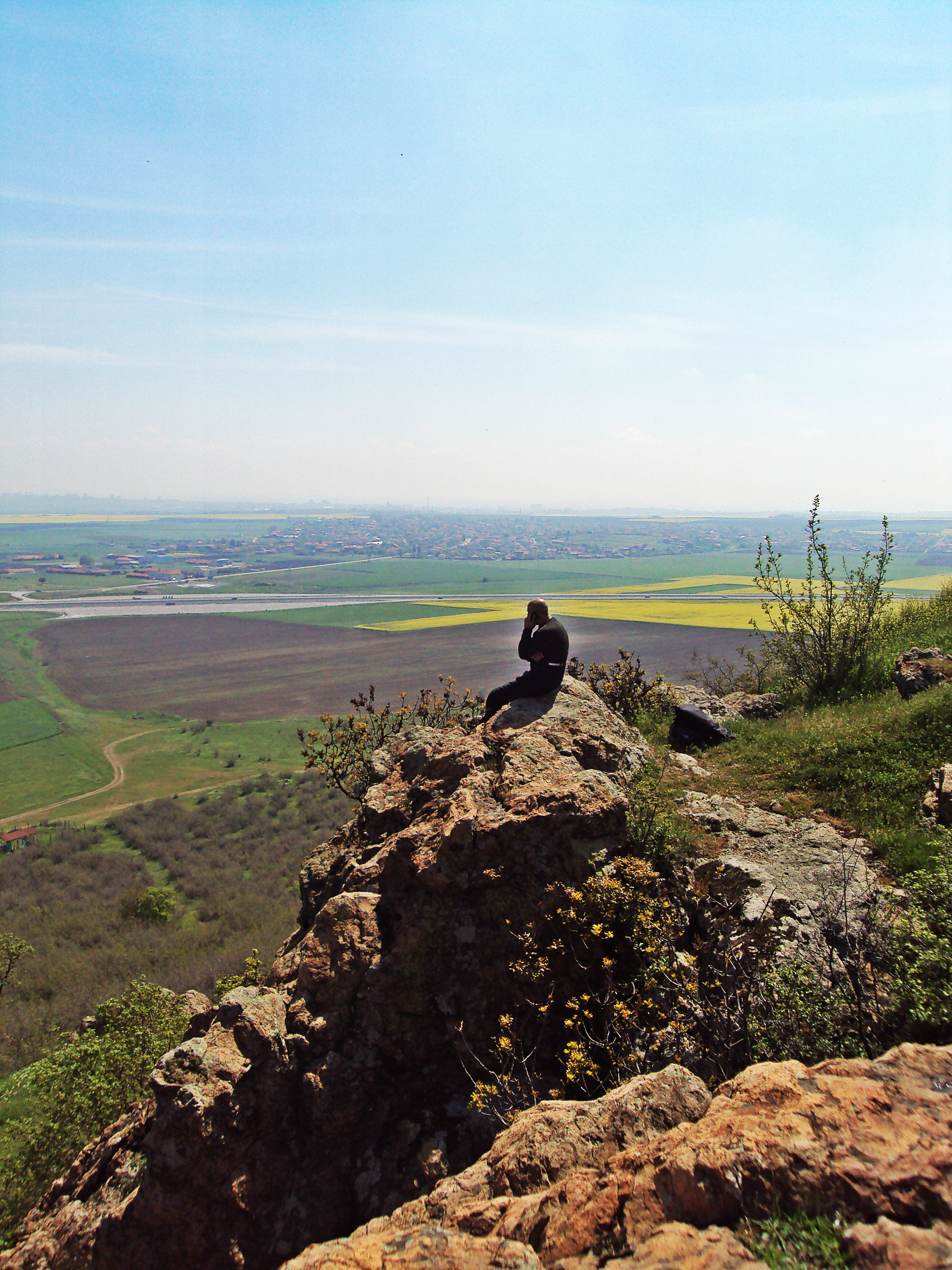 Zayychi_Vruh_Cabile_BG